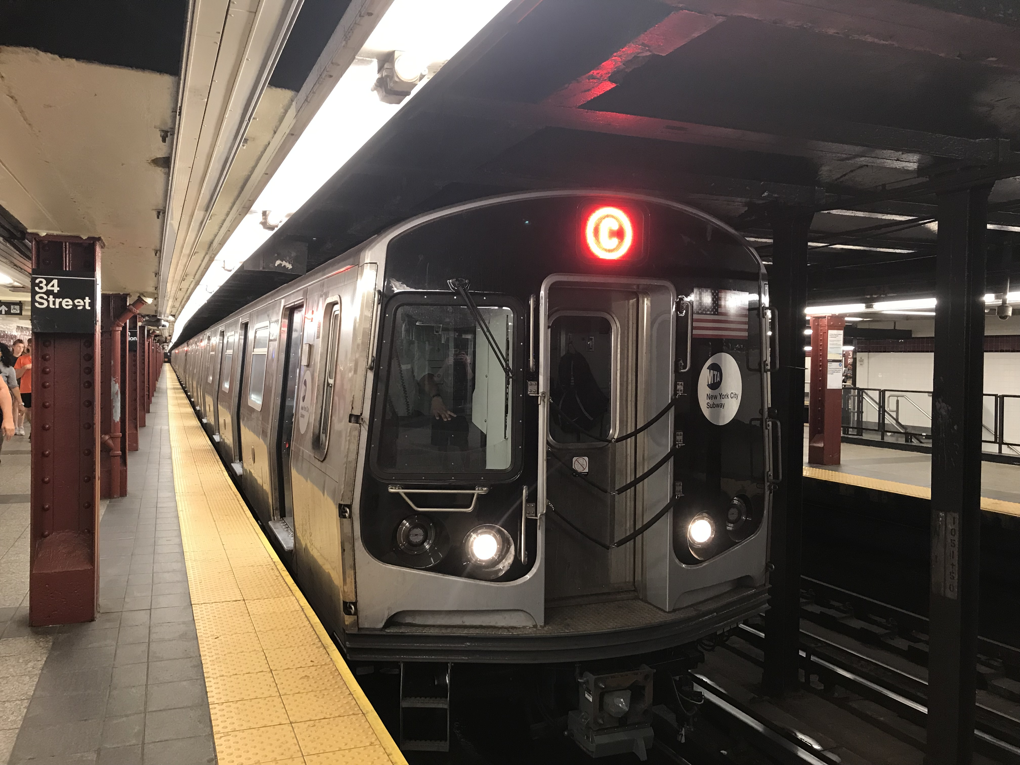 R179 C train